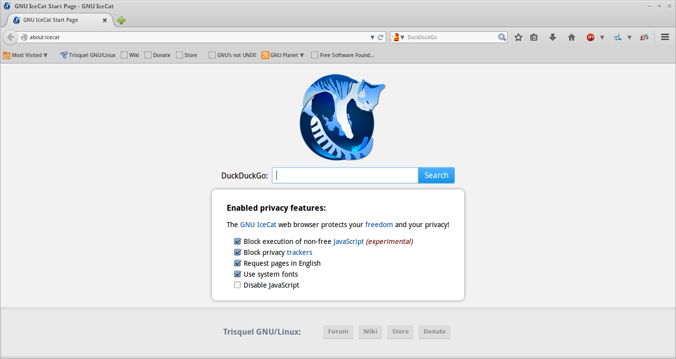 IceCat 38's start page (about:icecat) on Trisquel GNU/Linux